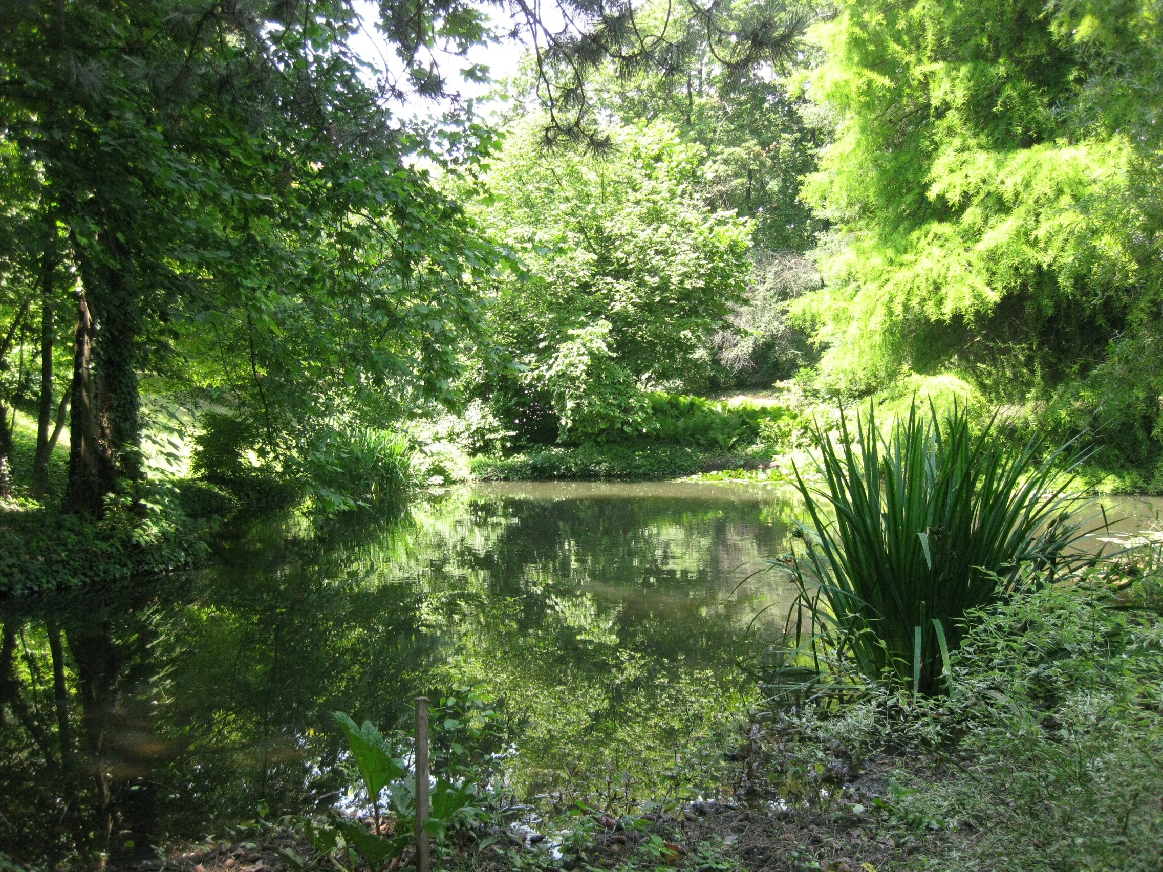 Botanicá Záhrada in Bratsilava